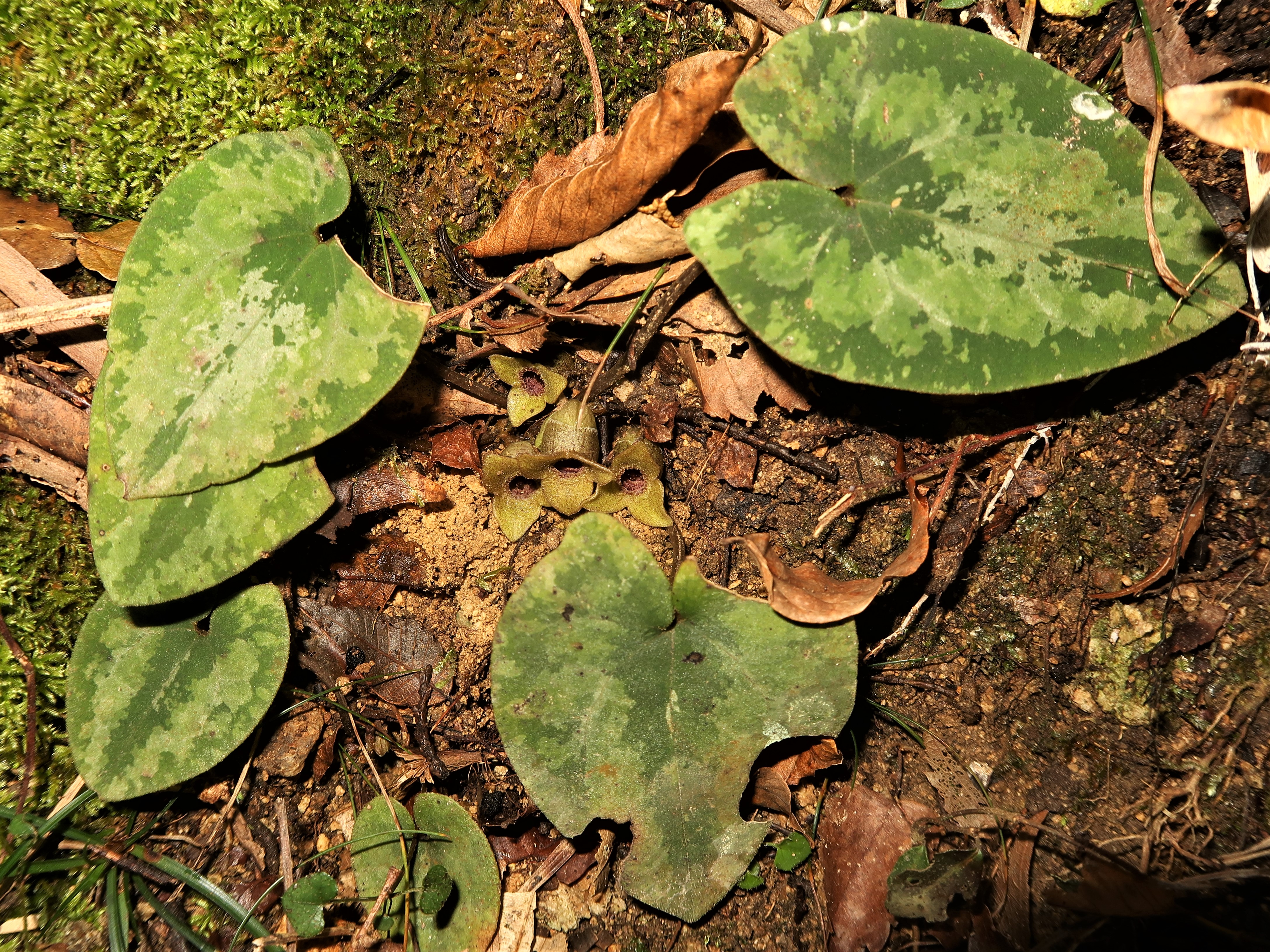 Asarum savatieri subsp. pseudosavatieri, Izu city, Shizuoka pref., Japan